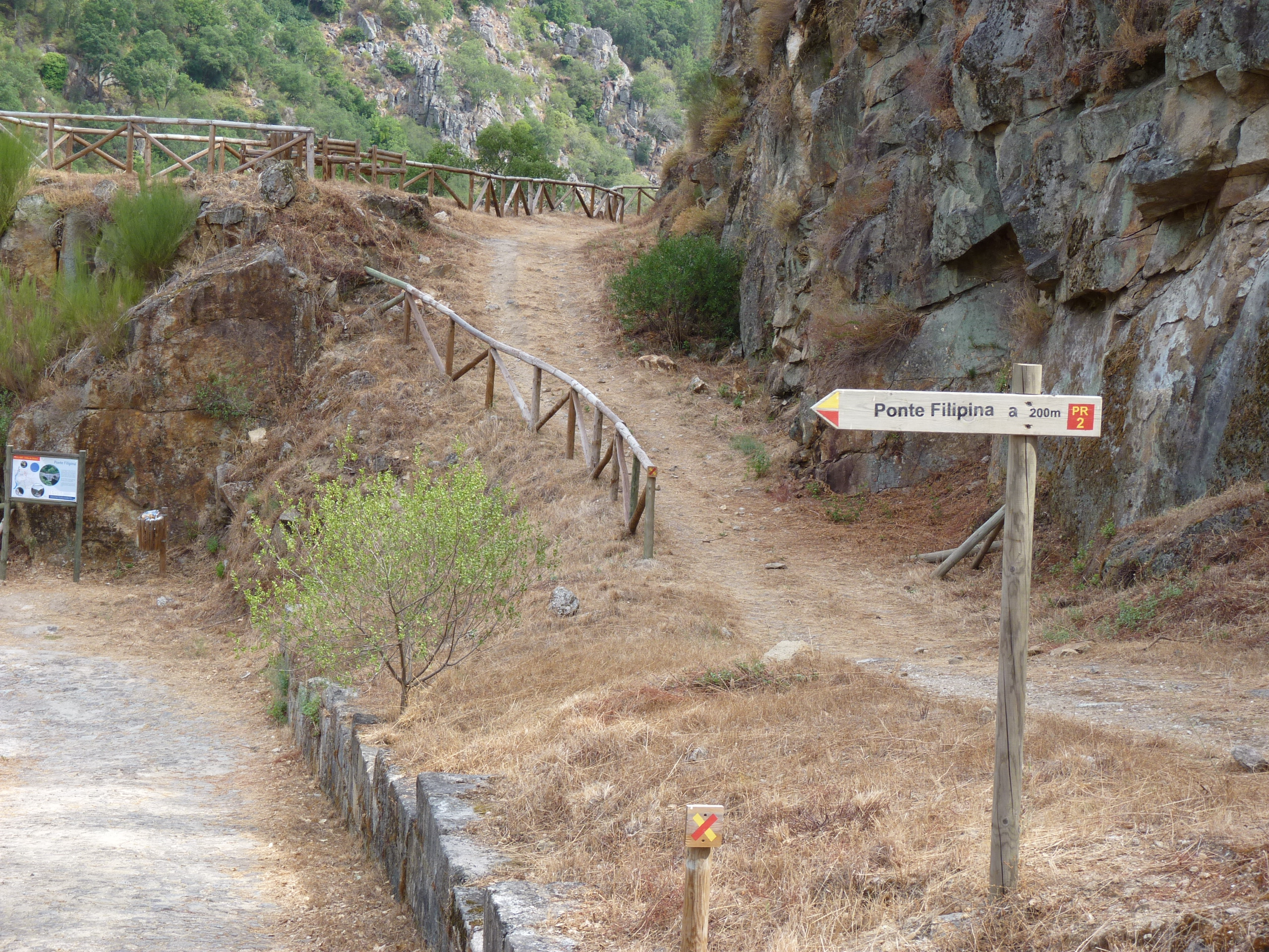 This file was uploaded for Wiki Loves Monuments in Portugal with the unique identifier 70408.